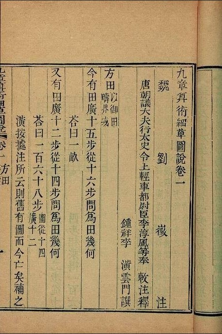 The Nine Chapters on the Mathematical Art, published in 1820.